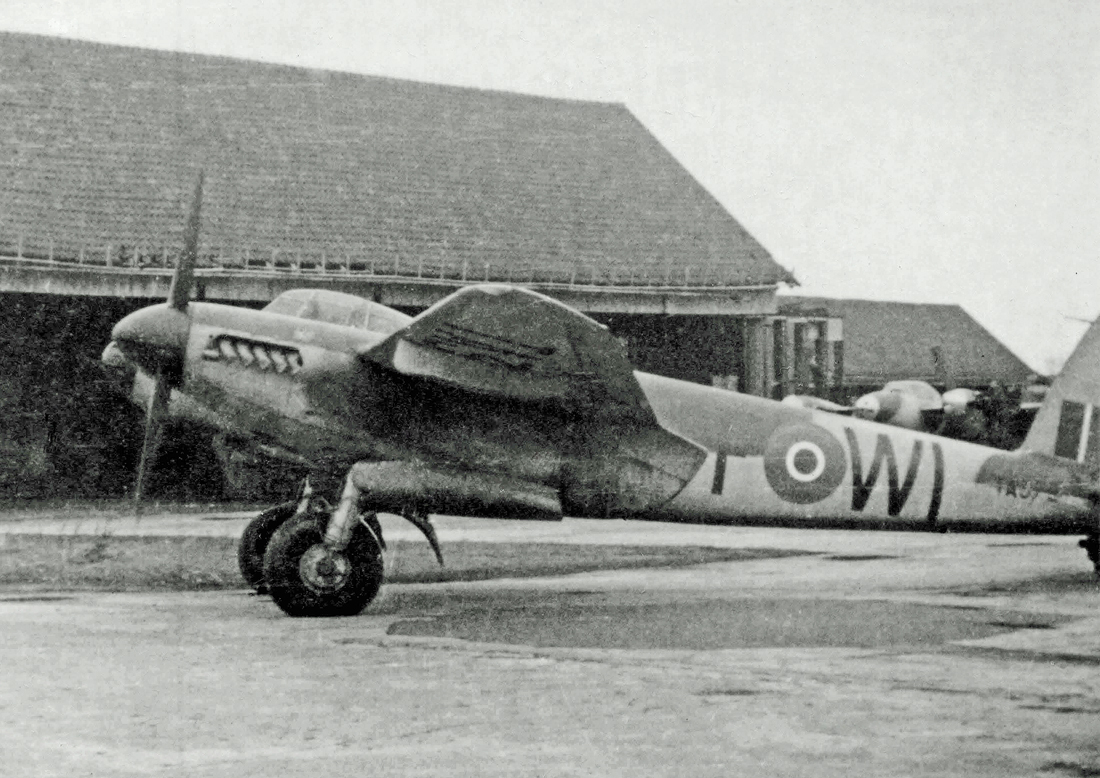 De Havilland DH.98 Mosquito FB.VI TA379 WI-F of No. 69 Squadron RAF at Cambrai - Epinoy airfield France in March 1946